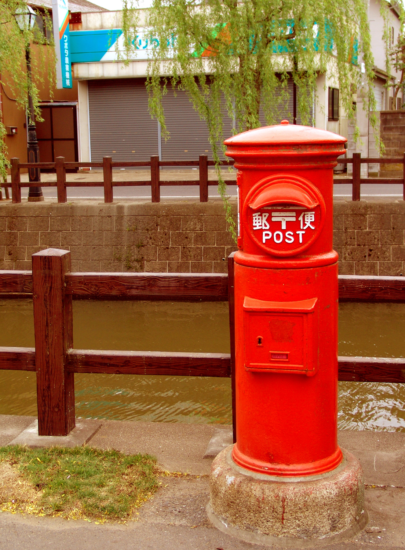 Street mailbox in Sawara, Japan